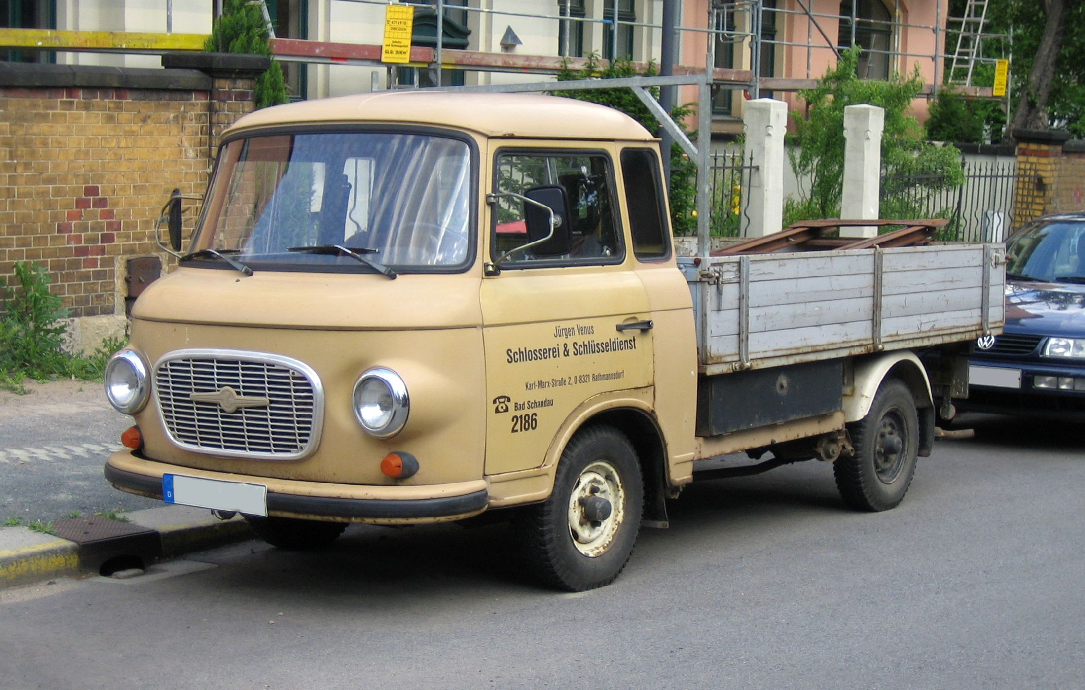 Barkas B1000 HP - platform truck